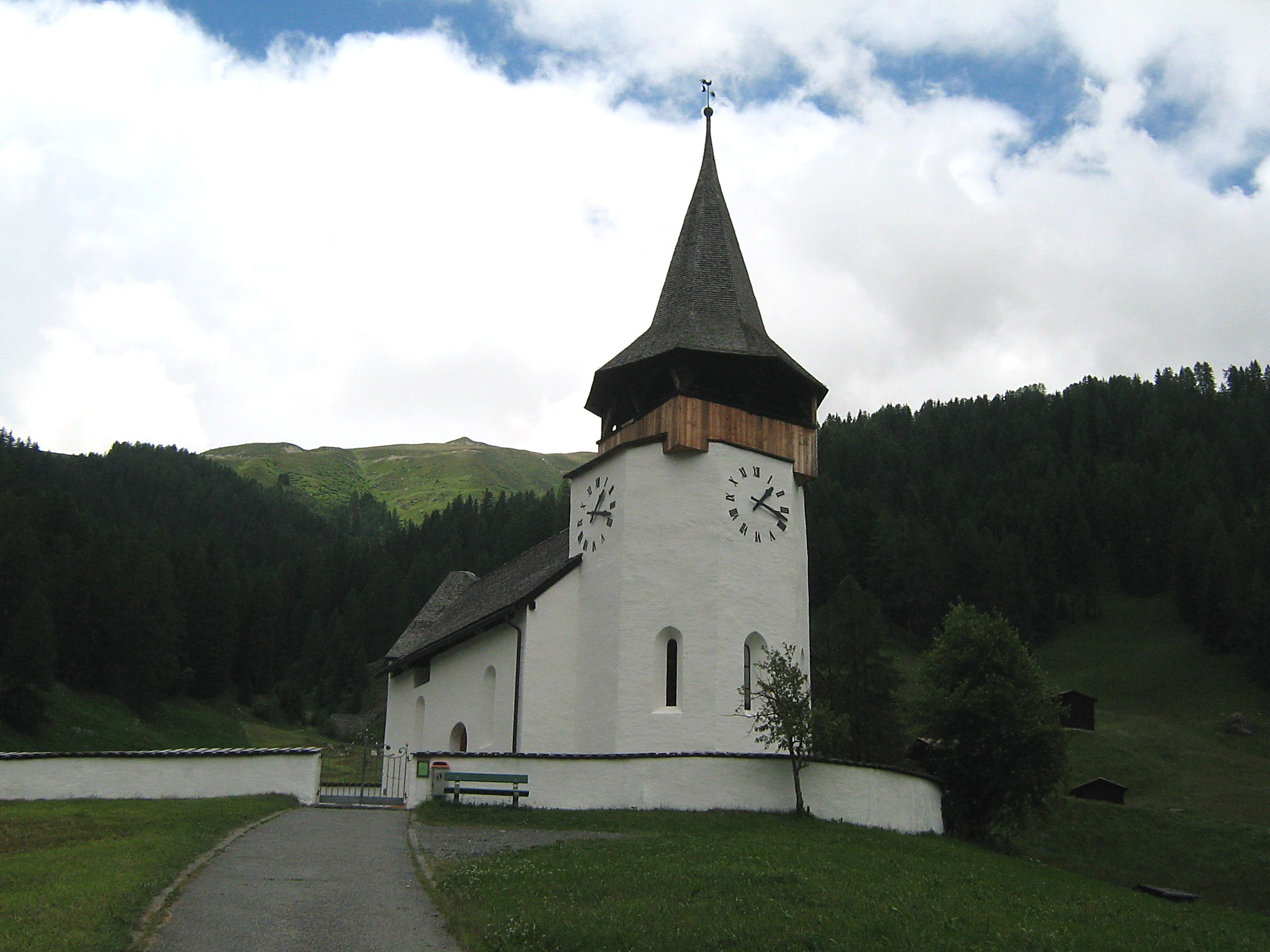 Frauenkirch in the southern part of Davos, Swizerland. June 21, 2009.